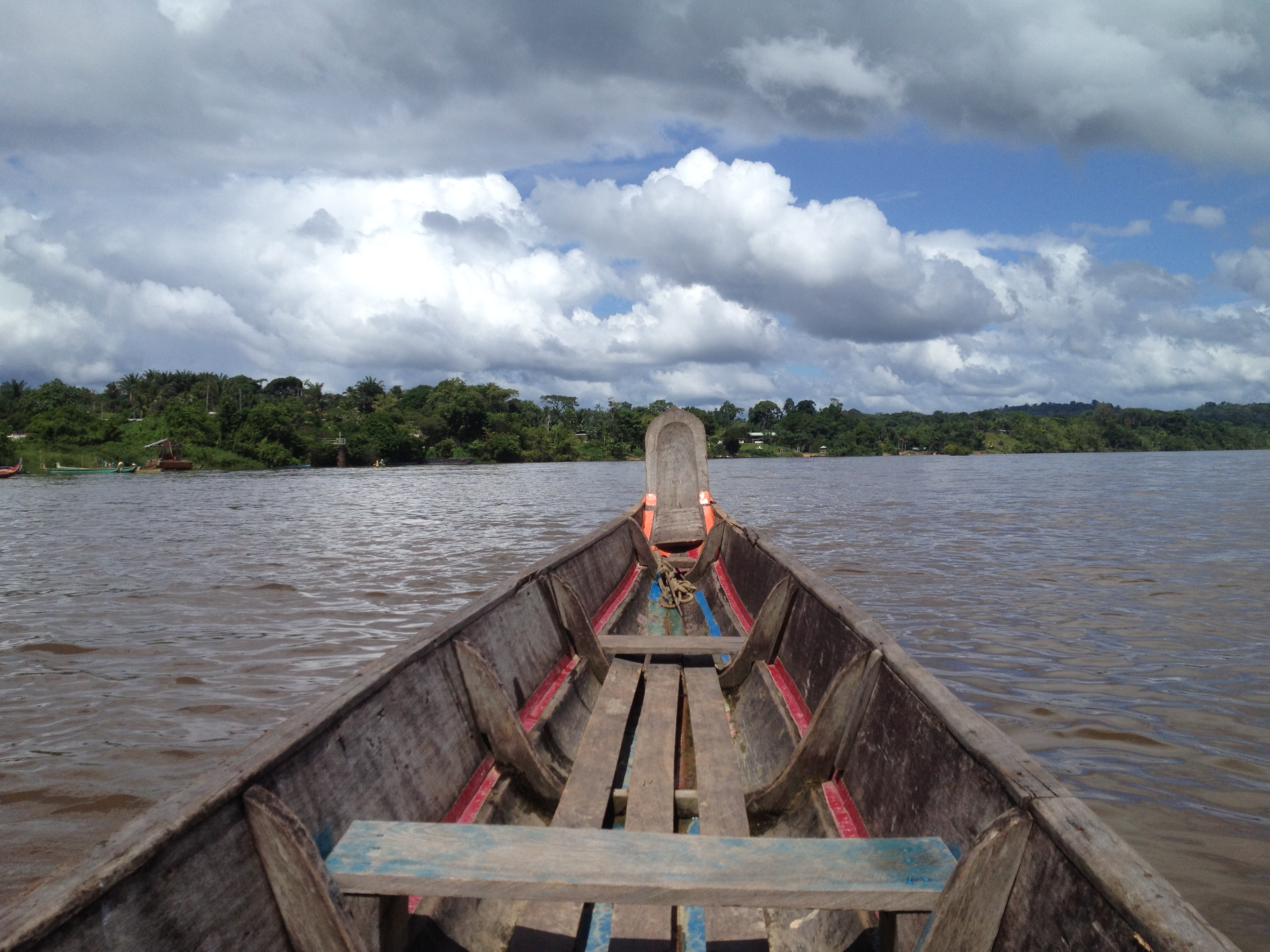 A pirogue cruising from Maripasoula to Suriname over Lawa River